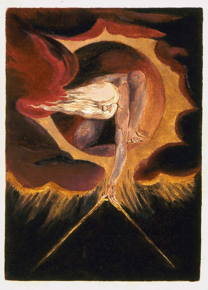 Europe a Prophecy copy B object 1 Bentley 1, Erdman i Keynes i Europe a Prophecy